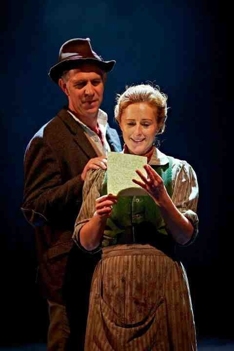 War Horse - Ted & Rose Narracott. Malcolm Ridley & Nicola Stephenson.